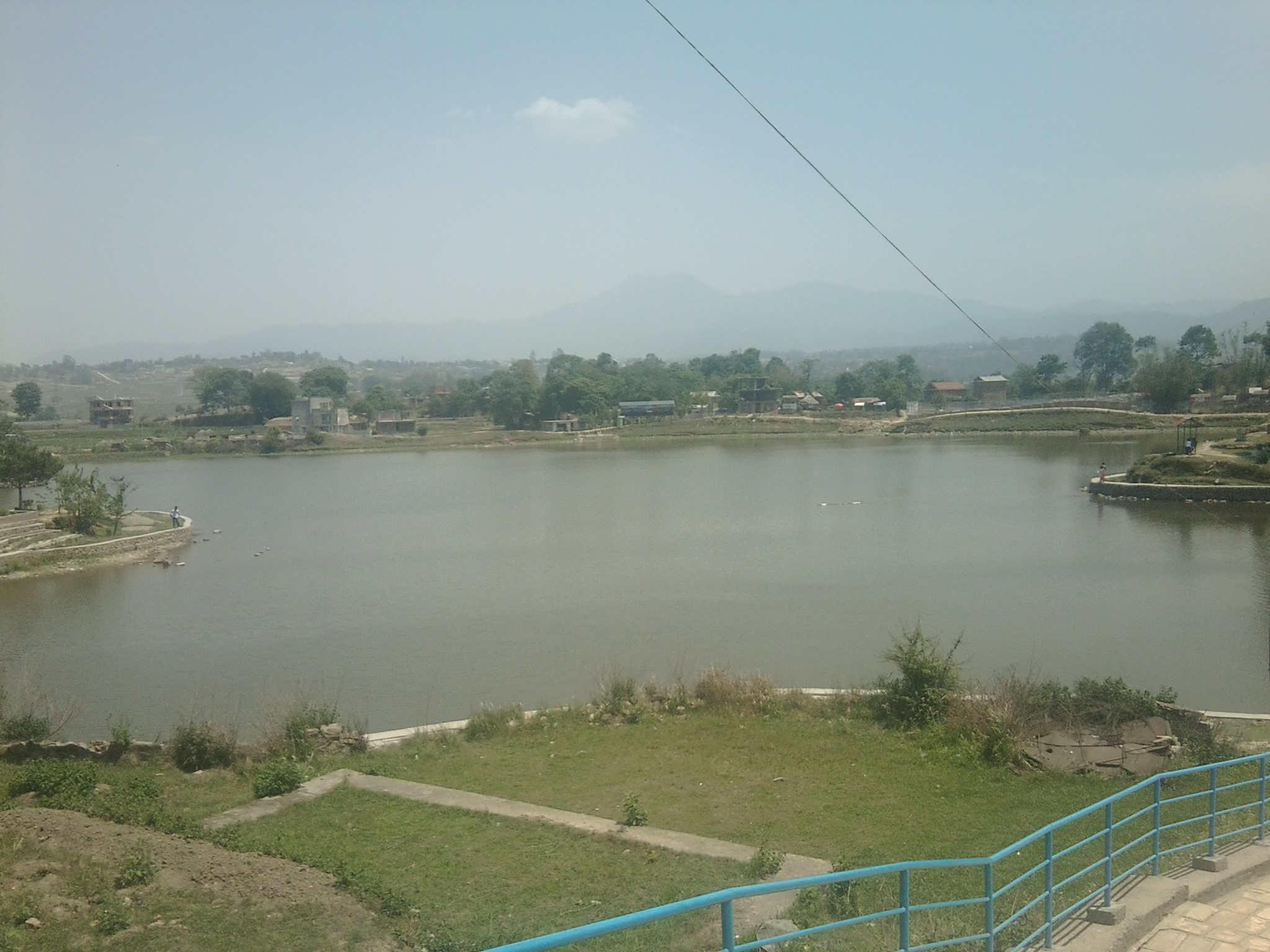 Taudaha is a Lake in Kathmandu valley.